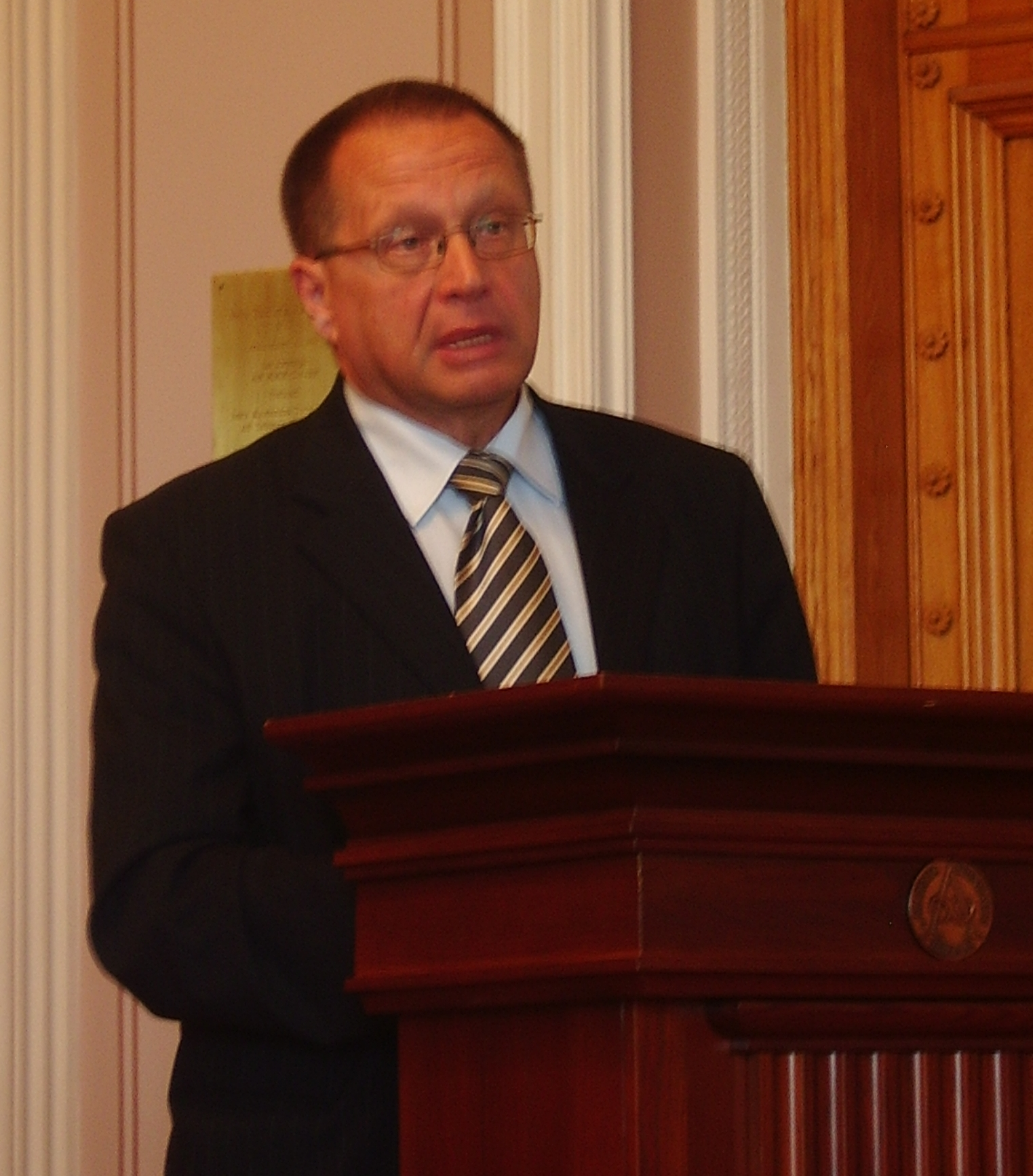 Jüri Allik is Estonian psychology professor.